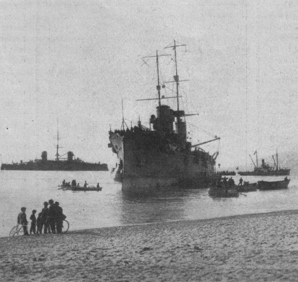 The Italian armoured cruiser San Giorgio (launched 1908) stranded at strait of Messina in 1913.